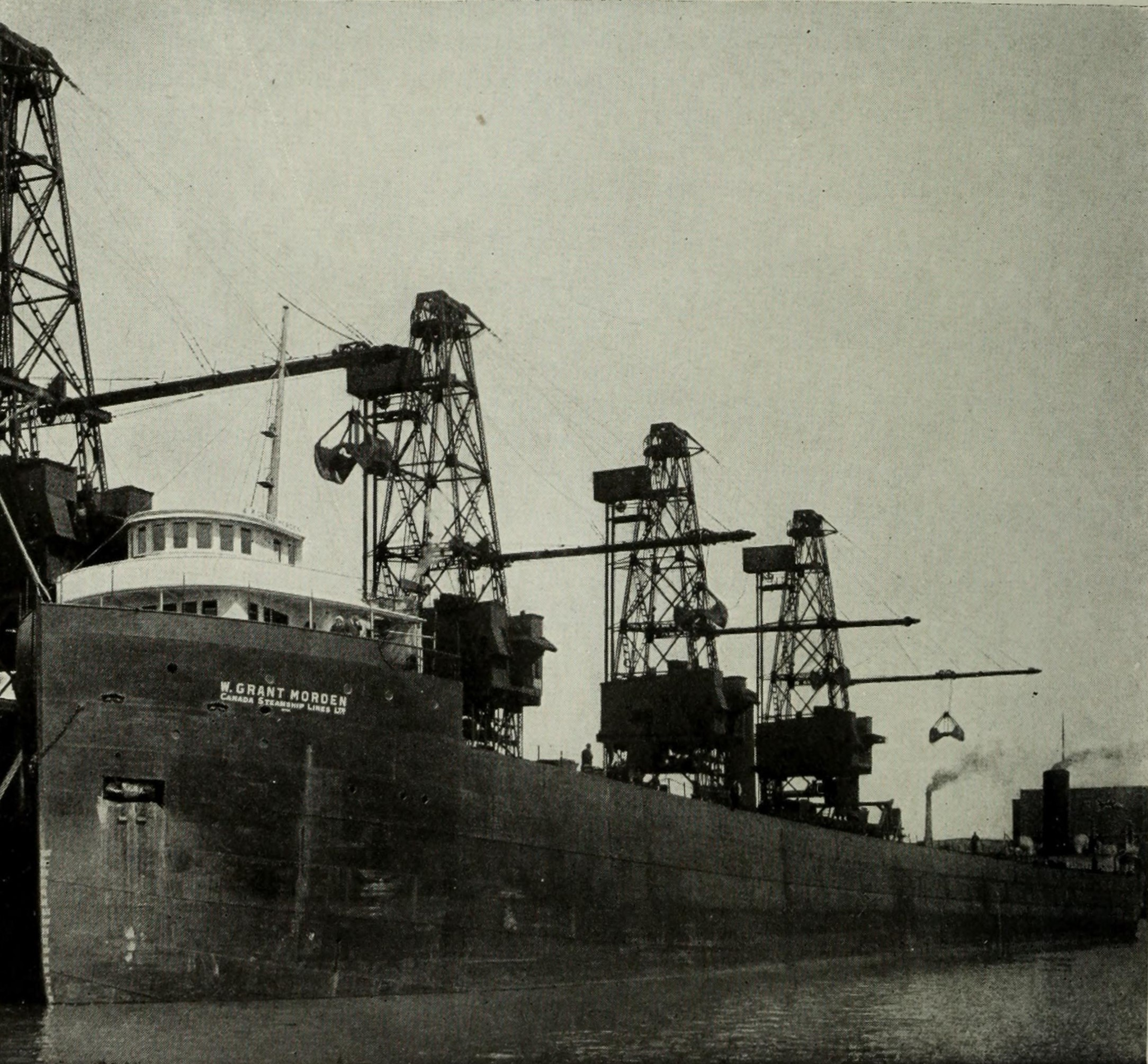 Canadian lake freighter, 625-feet LOA, perhaps the largest bulk carrier in the world when launched [1]. First Canadian "Queen of the Lakes" (largest Great Lakes freighter)[2]